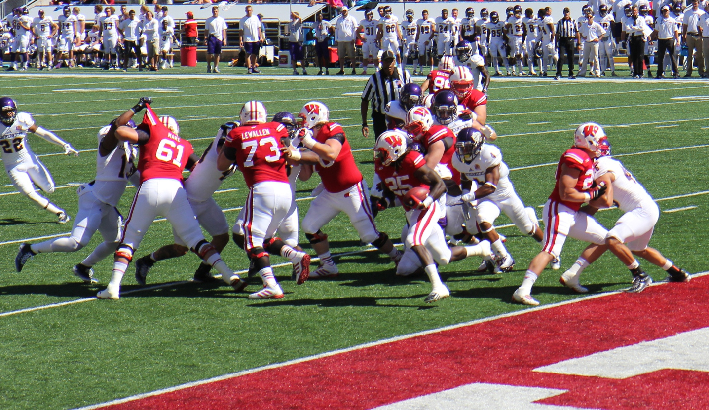 The Wisconsin Badgers offensive team blocking for rusher Melvin Gordon] III (#25) against the Western Illinois Leathernecks